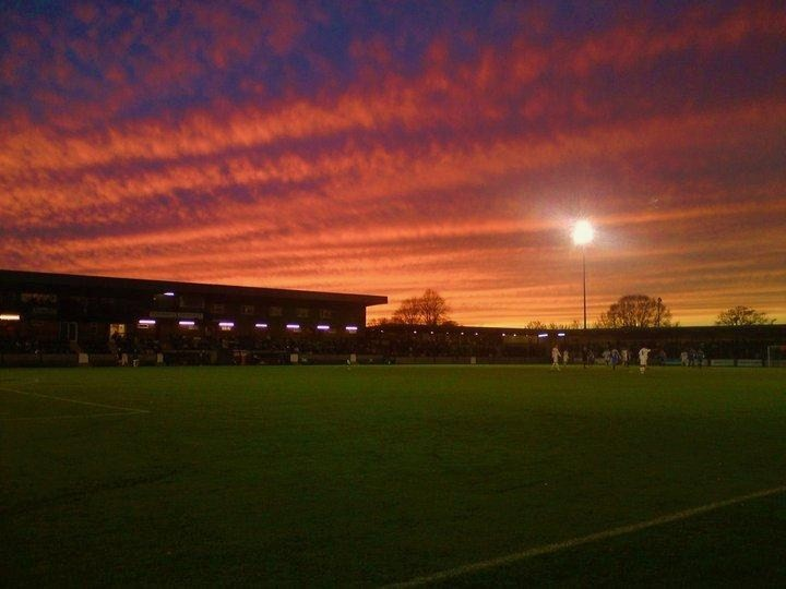 A photography of the Raymond McEnhill Stadium, Salisbury, England